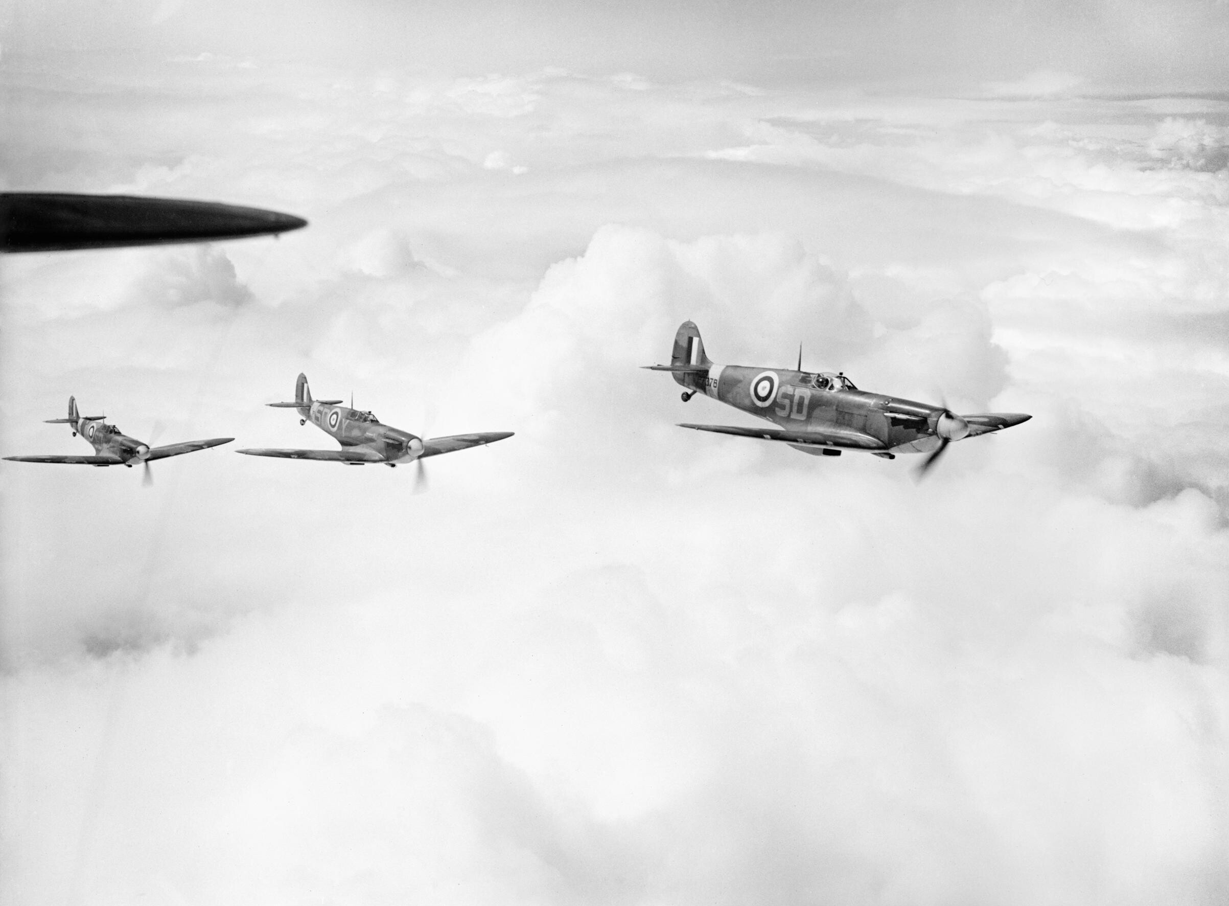 Supermarine Spitfire Mk Is of No. 501 Squadron RAF based at Colerne, Wiltshire, 23 May 1941. Three Supermarine Spitfire Mark Is of No 501 Squadron RAF based at Colerne, Wiltshire, flying in line astern.